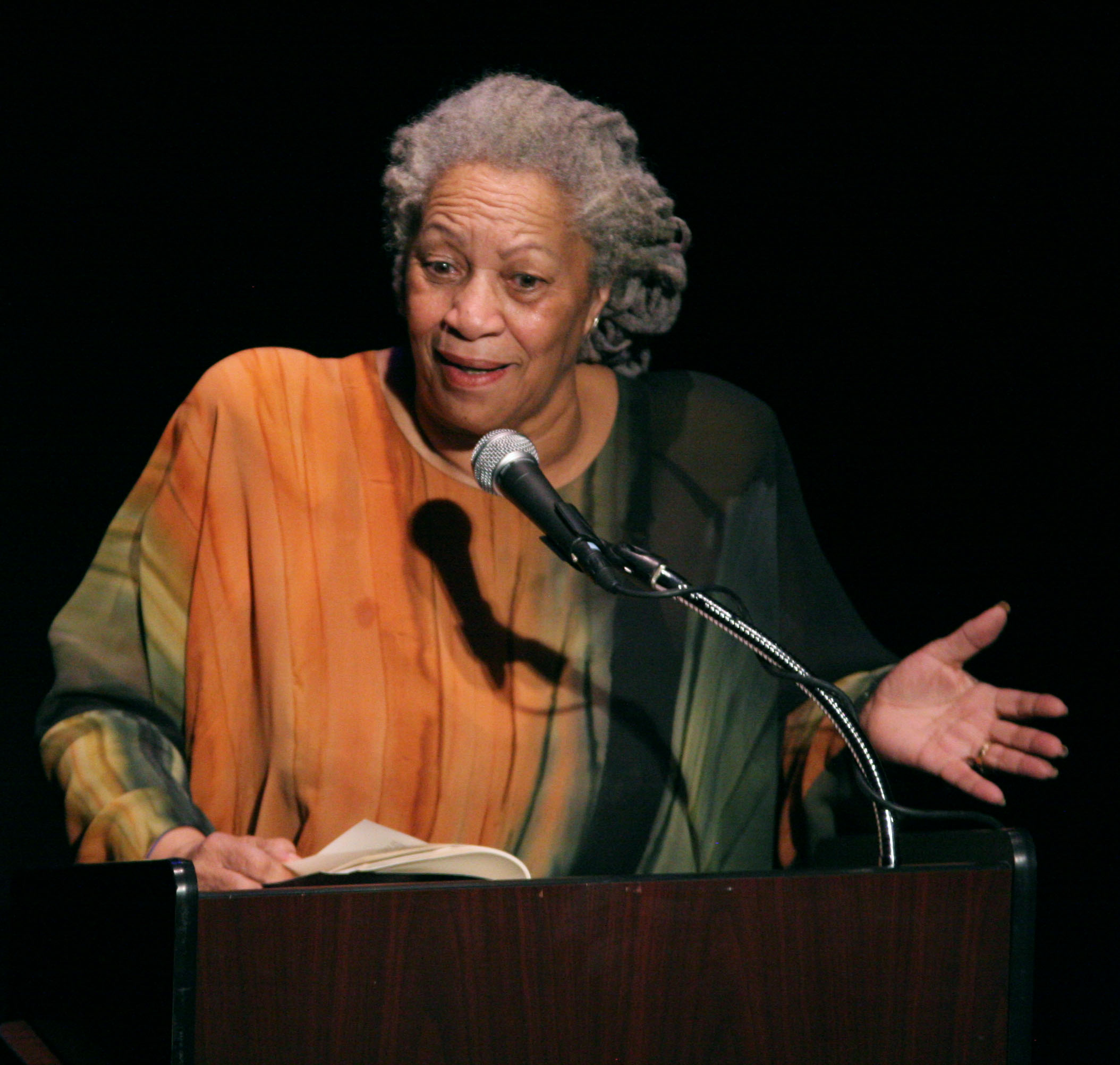 Toni Morrison speaking at "A Tribute to Chinua Achebe - 50 Years Anniversary of 'Things Fall Apart'". The Town Hall, New York City, February 26th, 2008.